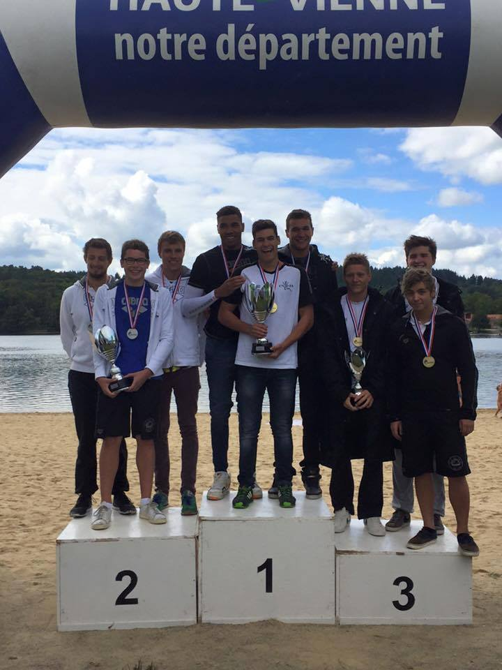 L'équipe masculine du CNFA remporte le titre de Championne de France 2015 en Eau Libre (3 km en équipe à Saint-Pardoux.)